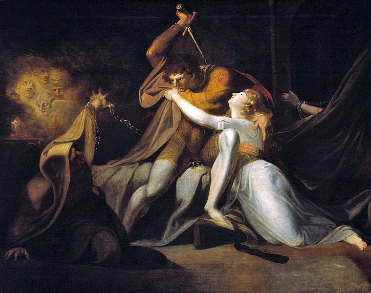 Percival Delivering Belisane from the Enchantment of Urma, Tate Britain, London